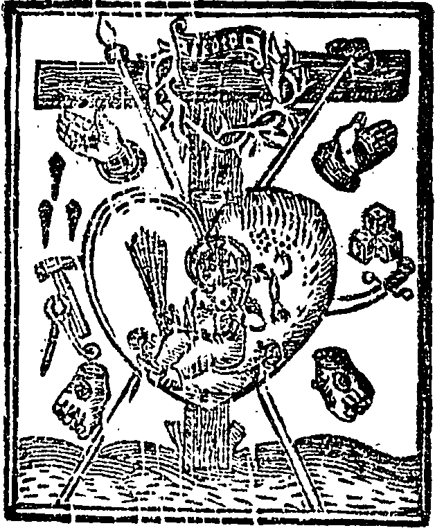 Fleuron from book: The spiritual exercises of S. Ignatius of Loyola. Founder of the Society of Jesus.